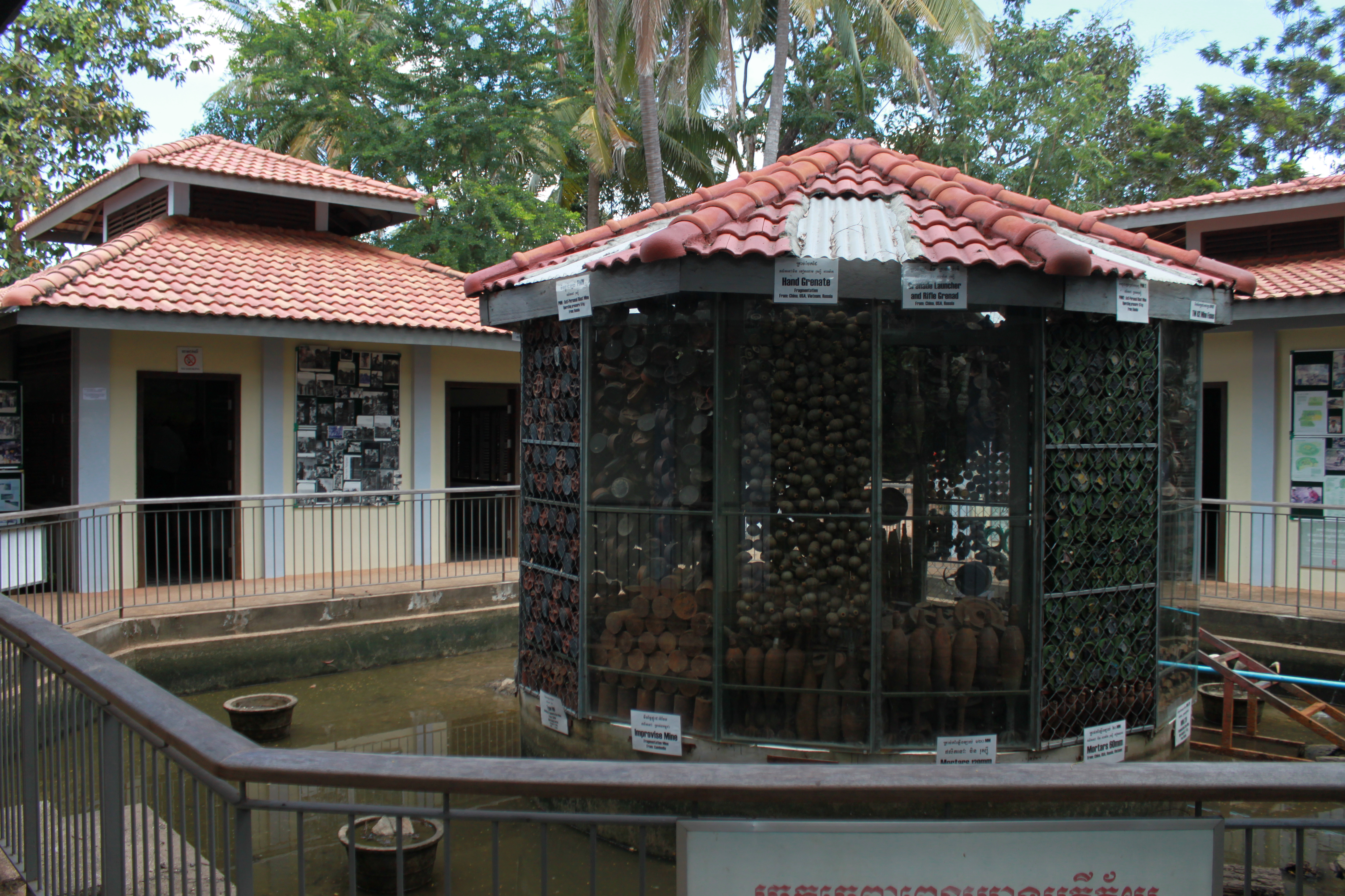 Cambodia Landmine Museum